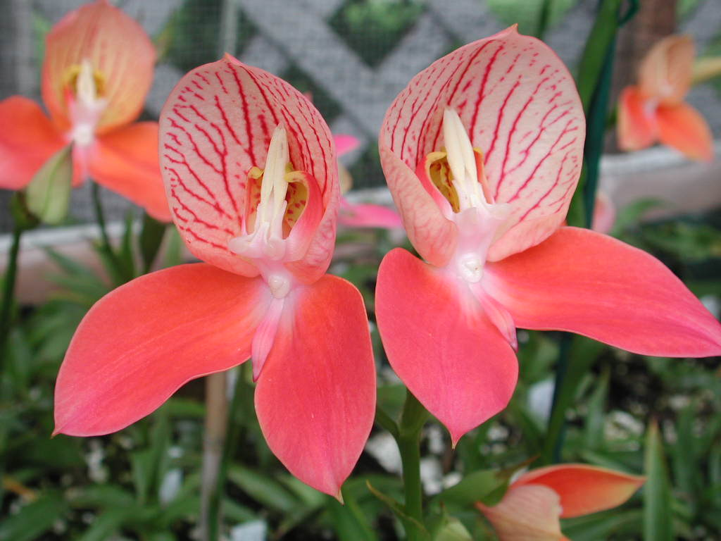 Red Flower of Disa uniflora